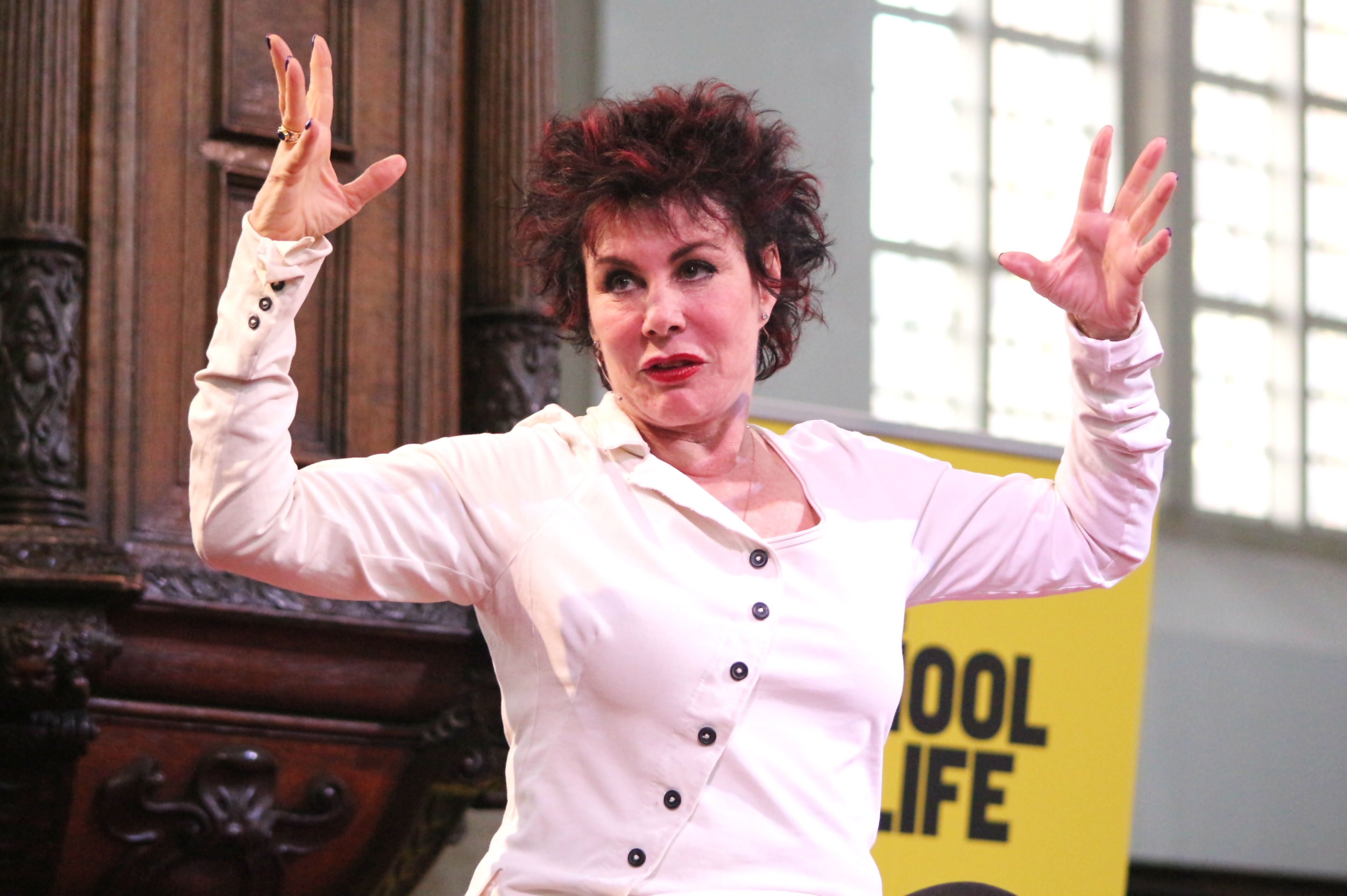 Ruby Wax in 2016